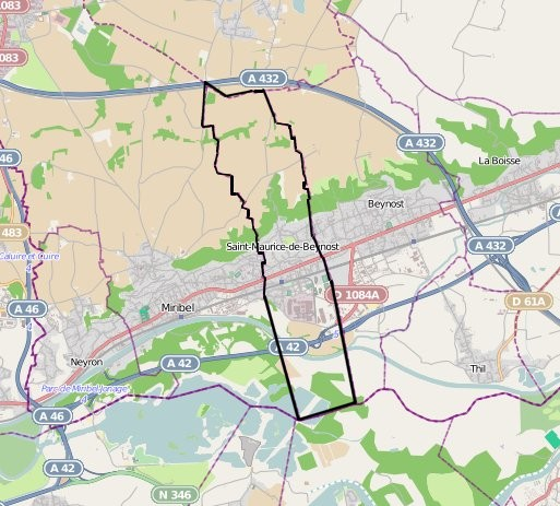 Geolocalisation top: 45.8728 bottom: 45.7916 left: 4.9119 right: 5.0411